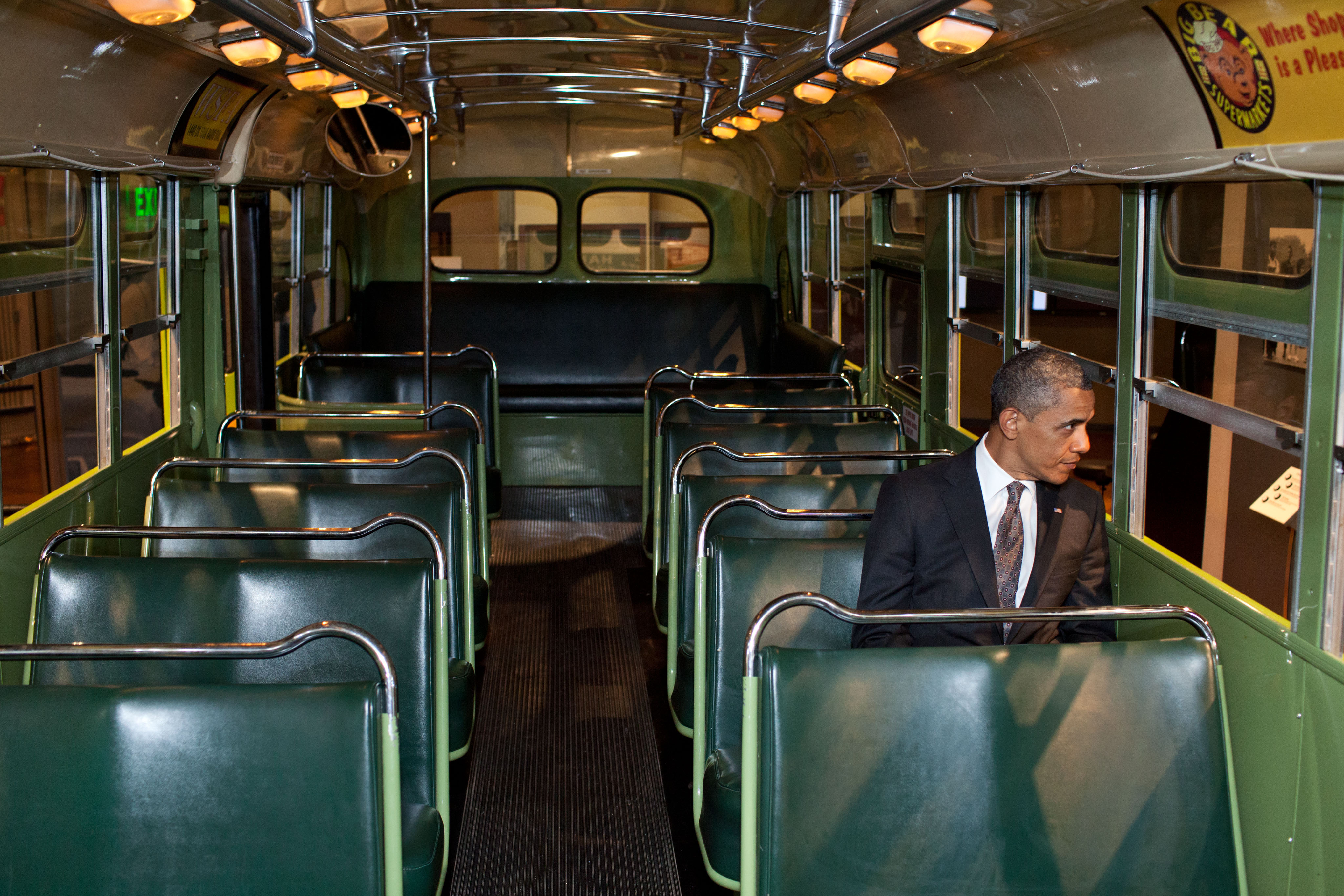 President Barack Obama sits in the famous Rosa Parks bus at the Henry Ford Museum after an event in Dearborn, Michigan, April 18, 2012. Parks was arrested sitting in the same row Obama is in, but on the opposite side. "We were doing an event at the Henry Ford Museum in Dearborn, Mich. Before speaking, the President was looking at some of the automobiles and exhibits adjacent to the event, and before I knew what was happening he walked onto the famed Rosa Parks bus. He sat in one of the seats, looking out the window for only a few seconds."— Official White House photographer Pete Souza